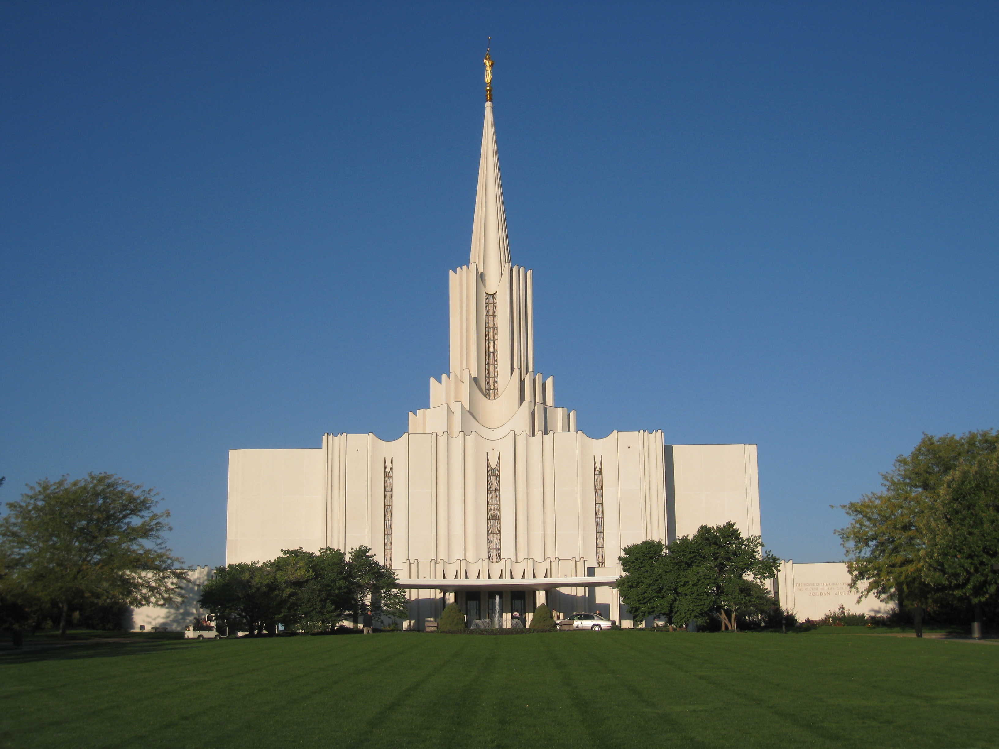 Full view of the Jordan River Utah Temple of The Church of Jesu Christ of Latter-day Saints.